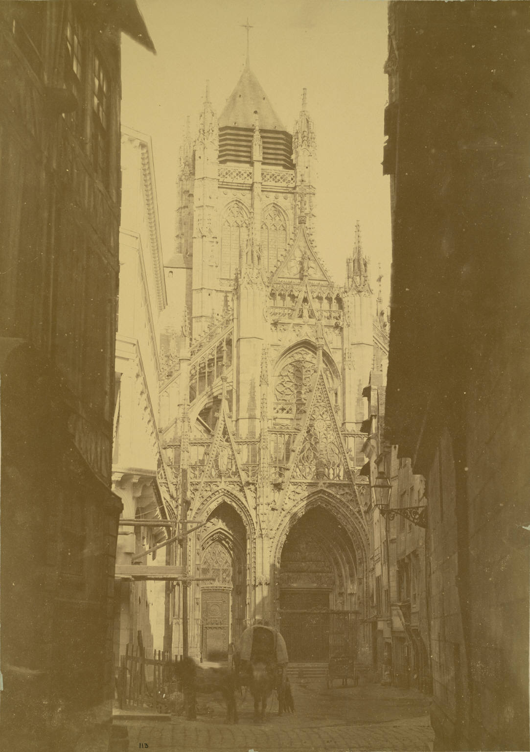 Collection: A. D. White Architectural Photographs, Cornell University Library Accession Number: 15/5/3090.01450 Title: Rouen. Church of Saint Maclou, West Façade Maker: Bisson Freres (French, 1841-1862) Photographer: Bisson Freres (French, 1841-1862) Building Date: 1432-1521 Photograph date: 1858 Location: Europe: France; Rouen Materials: albumen print Image: 16.9291 x 12.126 in.; 43 x 30.8 cm Style: Gothic Provenance: Gift of Andrew Dickson White Persistent URI: There are no known copyright restrictions on this image. The digital file is owned by the Cornell University Library which is making it freely available with the request that, when possible, the Library be credited as its source. We had some help with the geocoding from